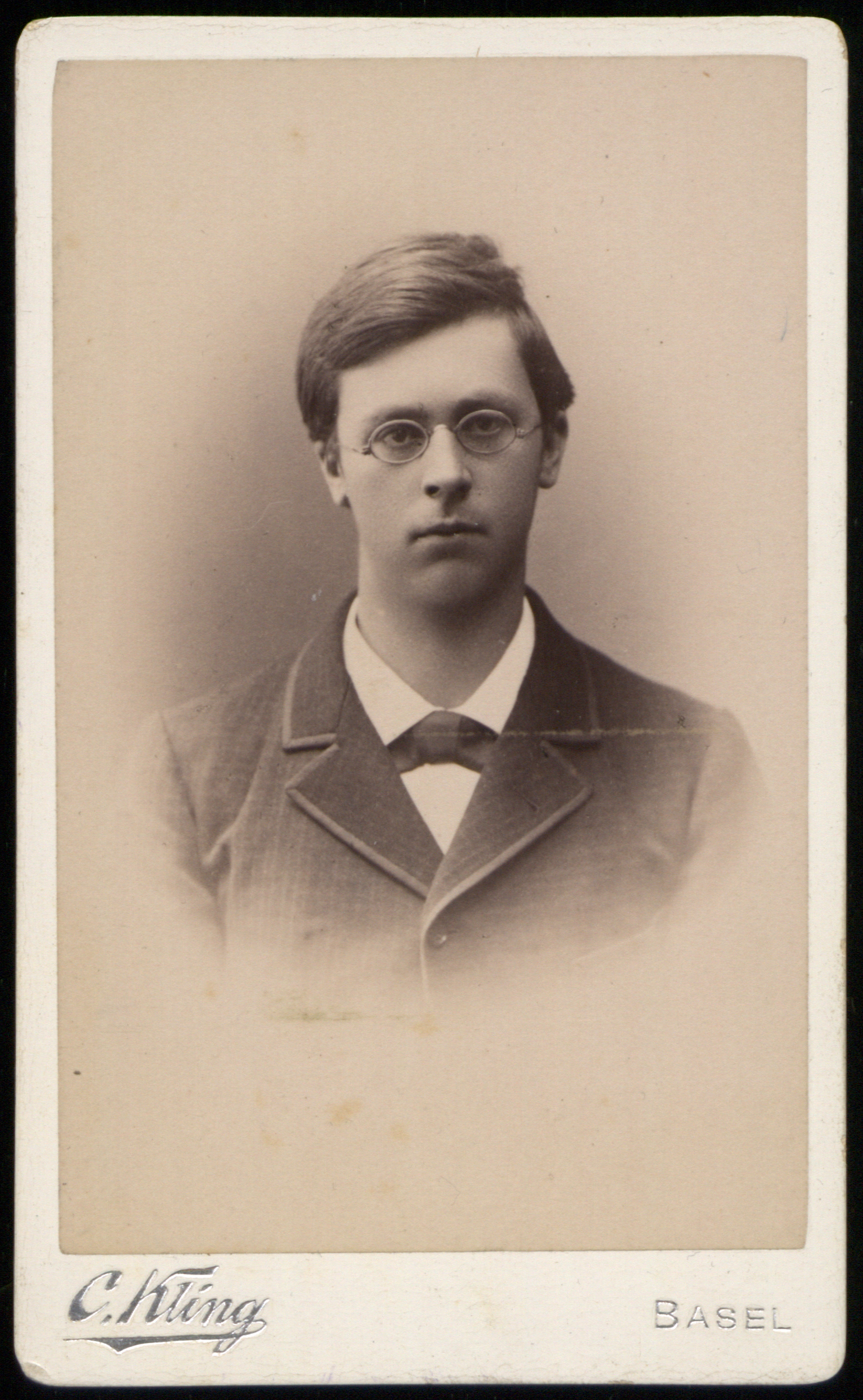 Portrait of Paul Burckhardt (1873-1956), photo